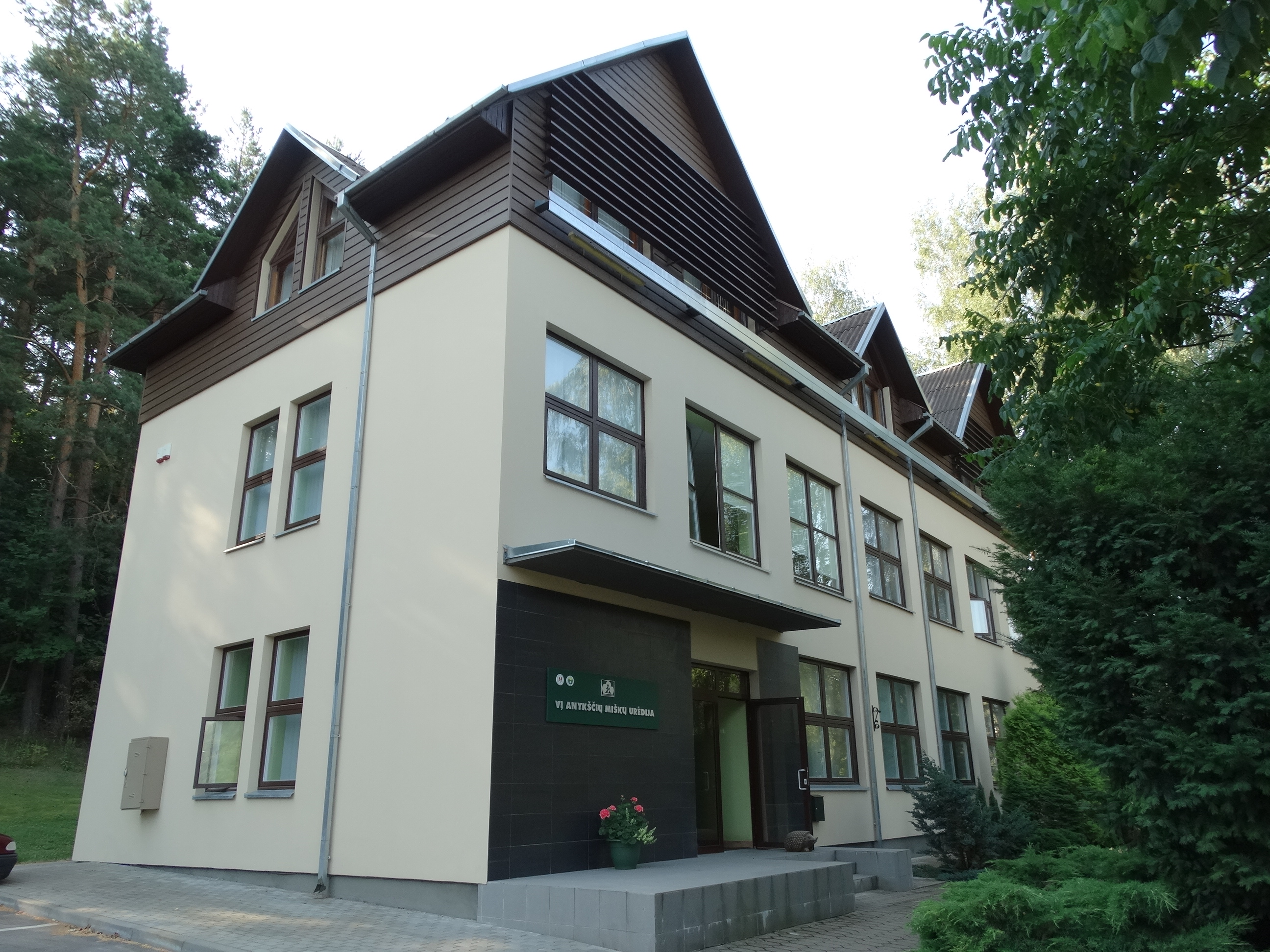 Forest enterprise, Anykščiai, Lithuania